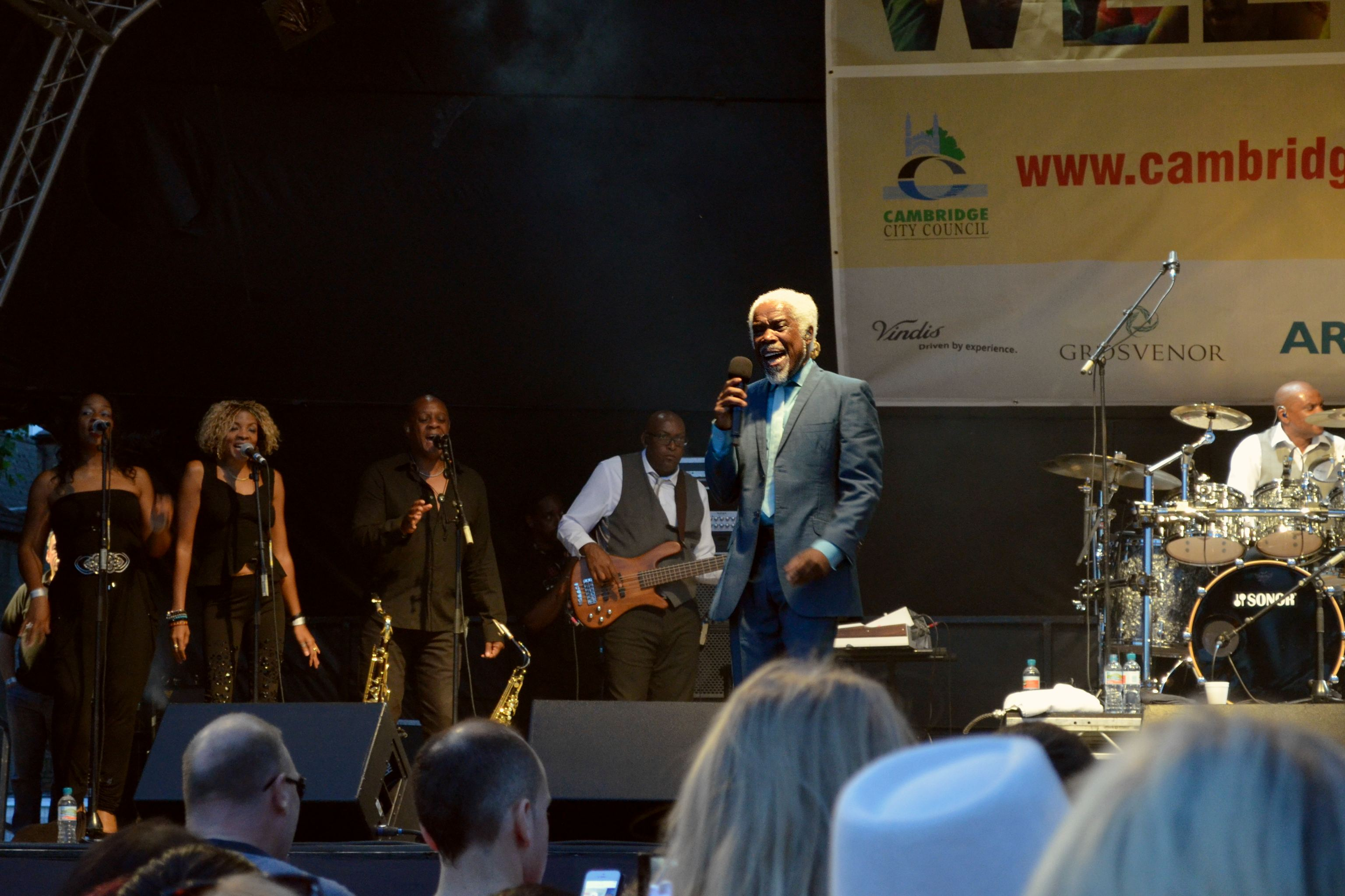 Billy Ocean performing at the Cambridge Big Weekend in July 2014.